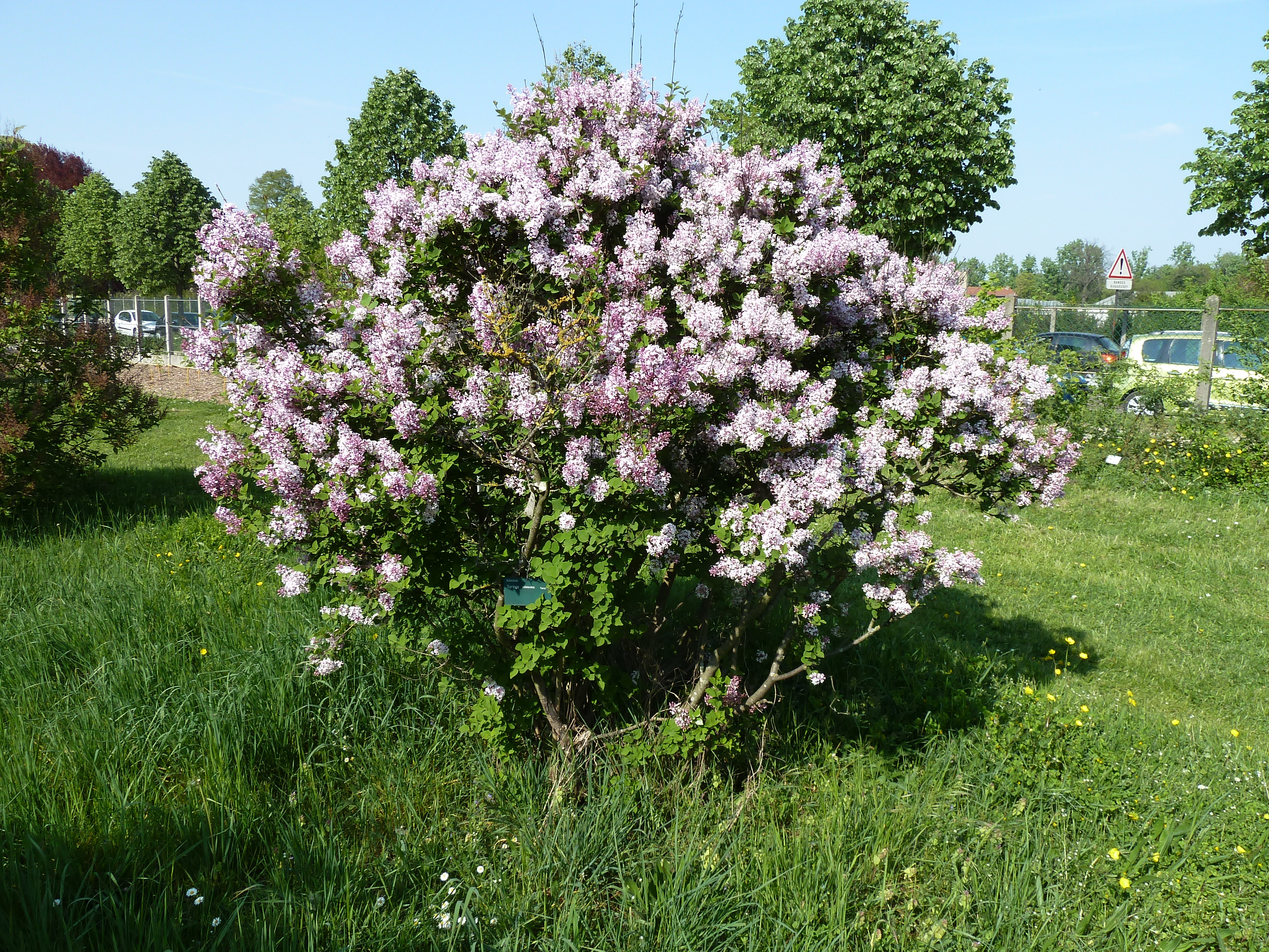 Syringa pubescens in Arboretum de l'école du Breuil (Paris, France)